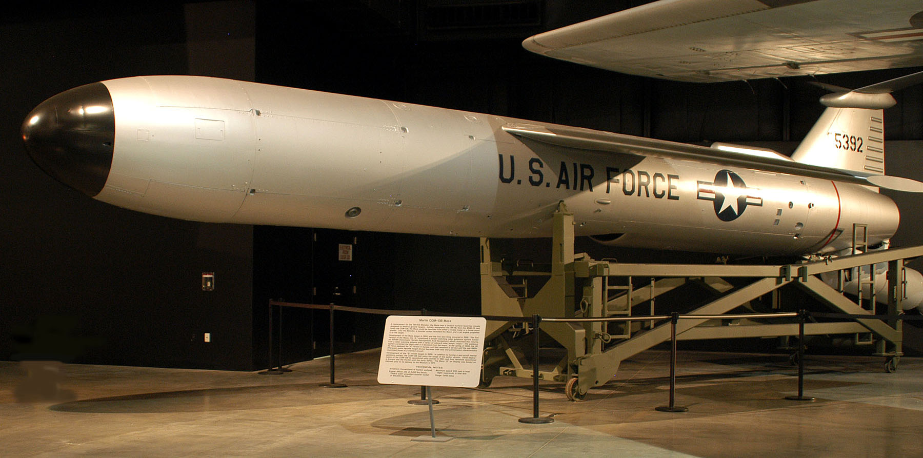 DAYTON, Ohio -- Mace missile on display in the Cold War Gallery at the National Museum of the United States Air Force. (U.S. Air Force photo)